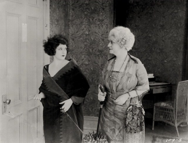 Still with Viola Dana and Julia Calhoun in the American romantic comedy film The Match-Breaker (1921) - cropped still (original image : see source).